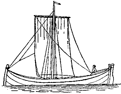 Norse Herring Boat, fig 2 of article on Rigging, from 1911 Enc. Brit.